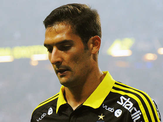 AIK Fotboll player